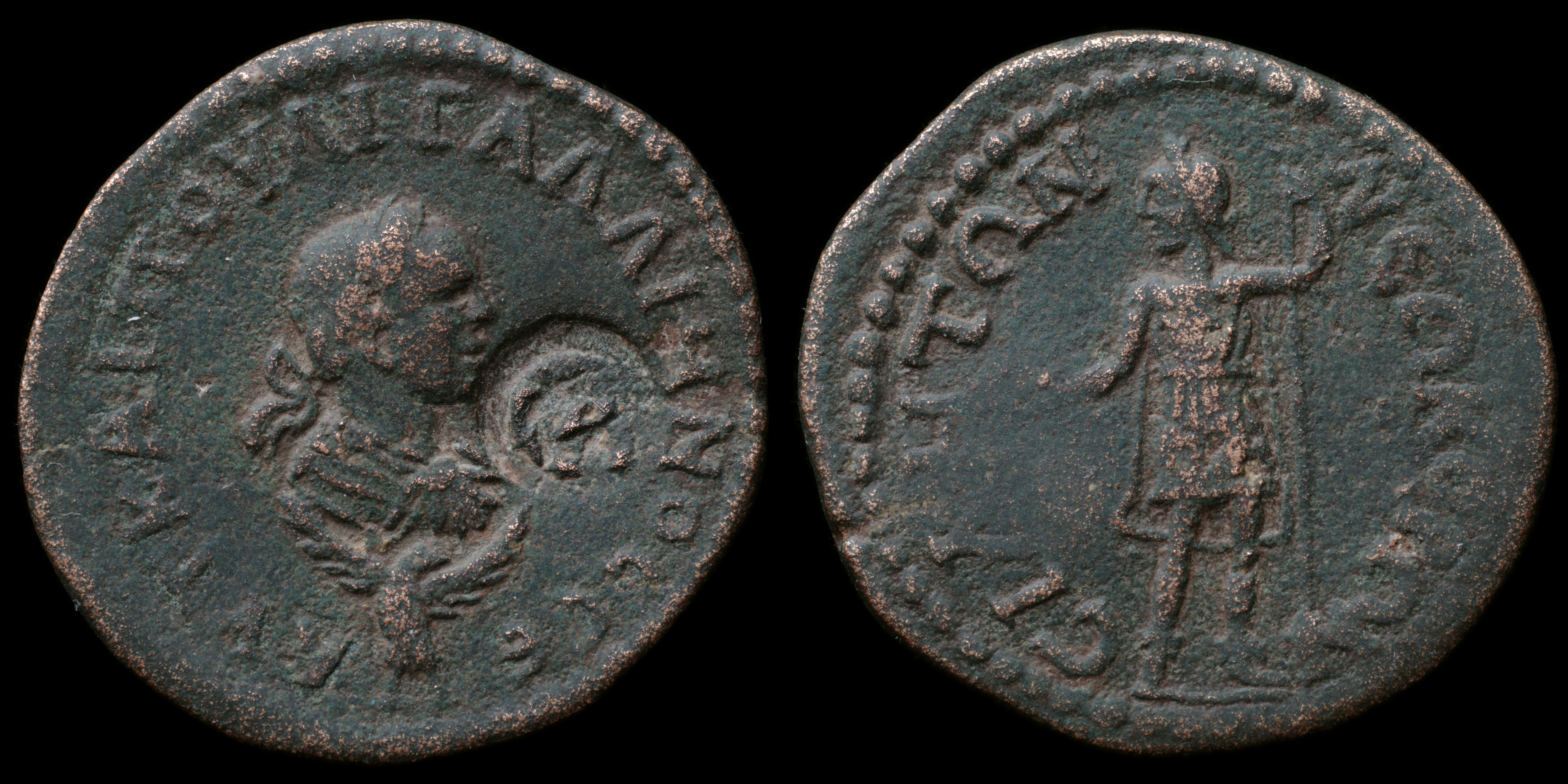 Gallienus Side, Pamphylia AE 11 assaria overstriked to pentassarion laureate, draped and cuirassed bust of Gallienus right from behind, eagle below AYT KAI ΠOYΛI EΓNA ΓAΛΛIHNOC CE IA {E} Apollo Sidetes facing, head left, holding phiale and scepter CIΔHTΩN__NEΩKOPΩN reference: SNG France 924; SNG von Aulock 4844